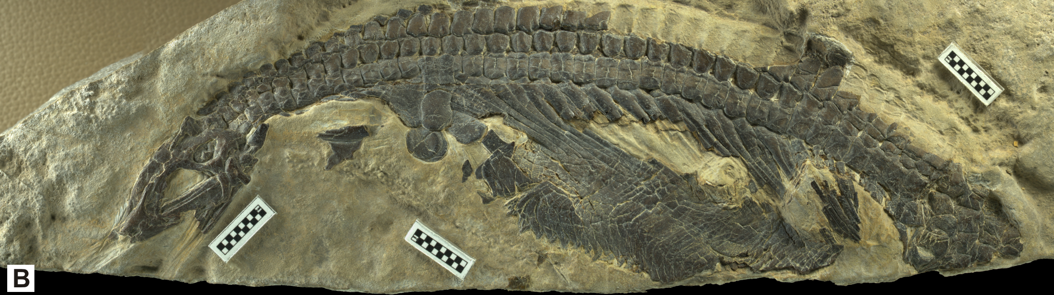 Skeleton of Nanchangosaurus suni Wang, 1959, referred specimen (WGSC 26006). Scale bar is 1 cm.